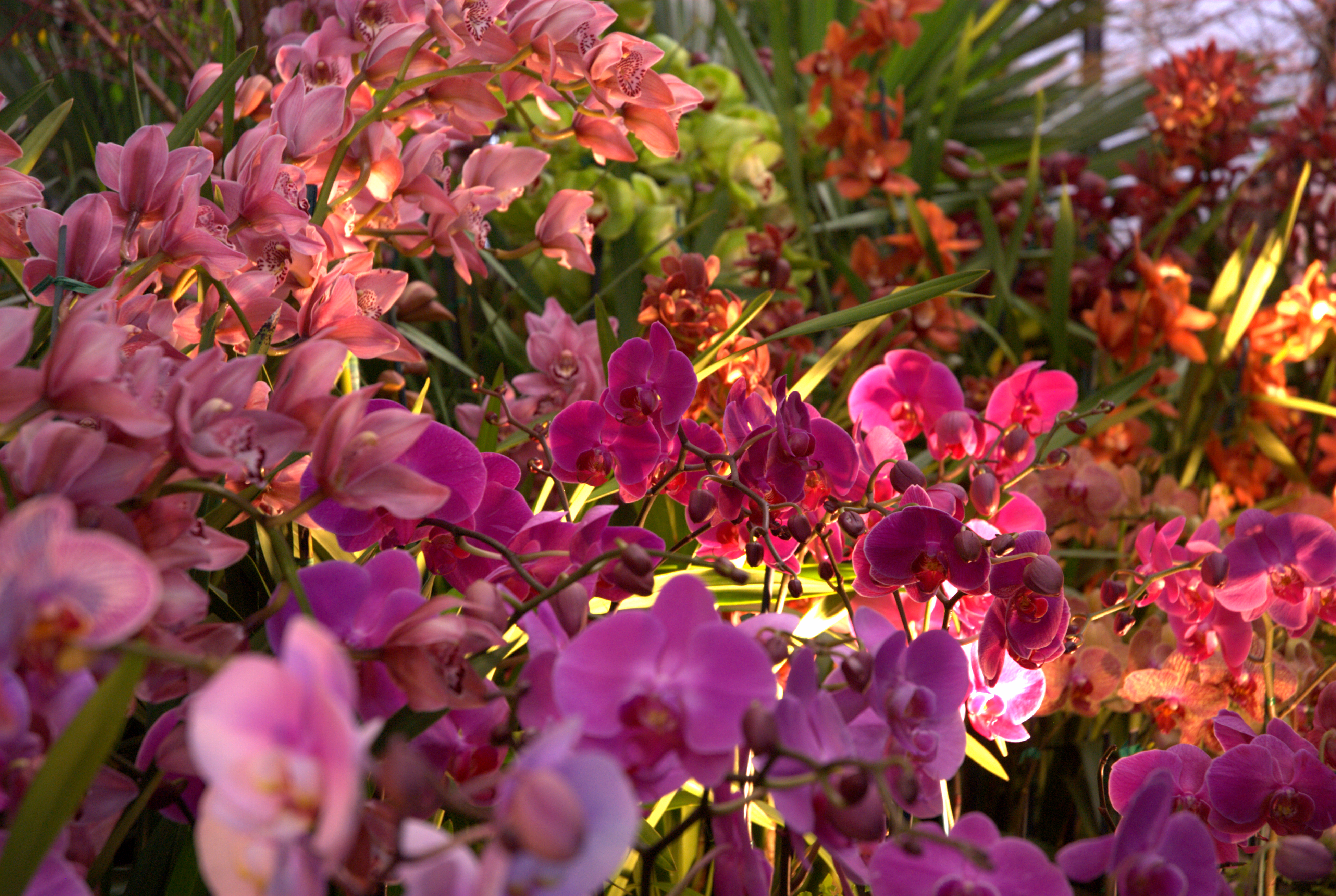 Pacific Orchid Exposition 2010.